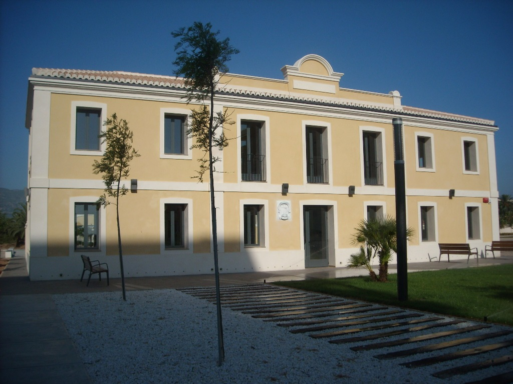 Quarter of the Carabiners, Safor, Xeraco Beach, Valencia- restored during 2010 and 2011. The headquarters serving the function of housing, protection and concentration of members of the former Military Police Corps dissolved by the Franco regime and responsible for monitoring mediterranian costs.